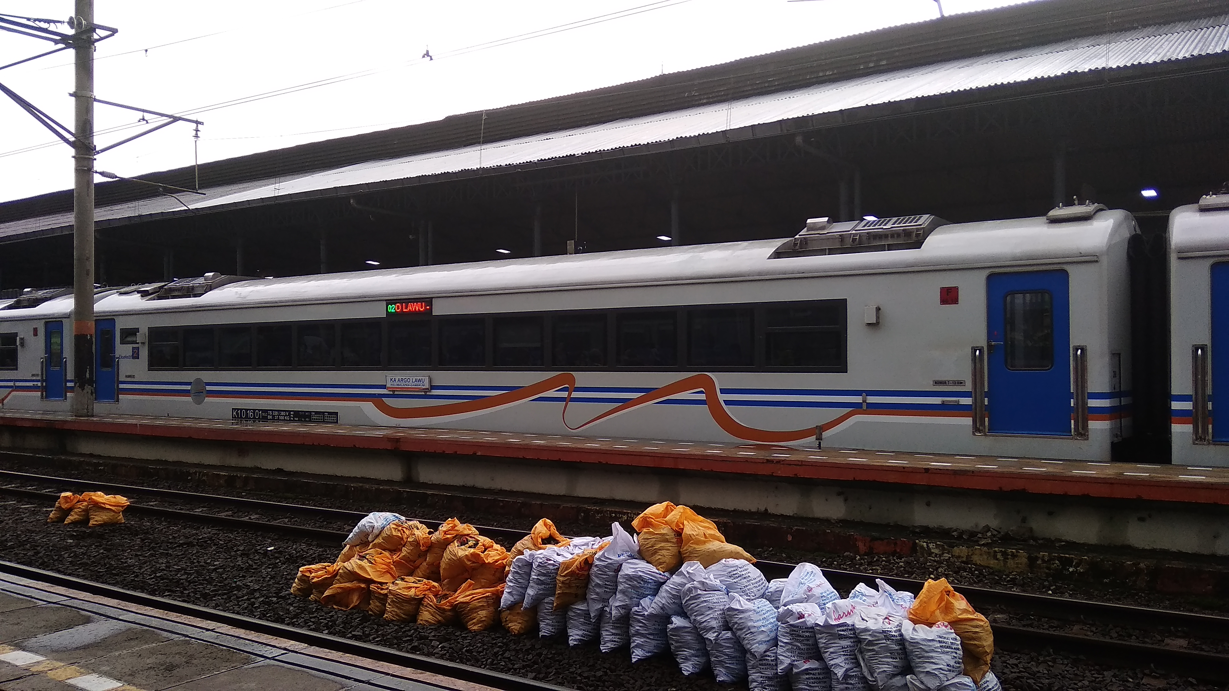 New 2016 steel 1st class passenger car owned byt Kereta Api Indonesia in Jatinegara Station.